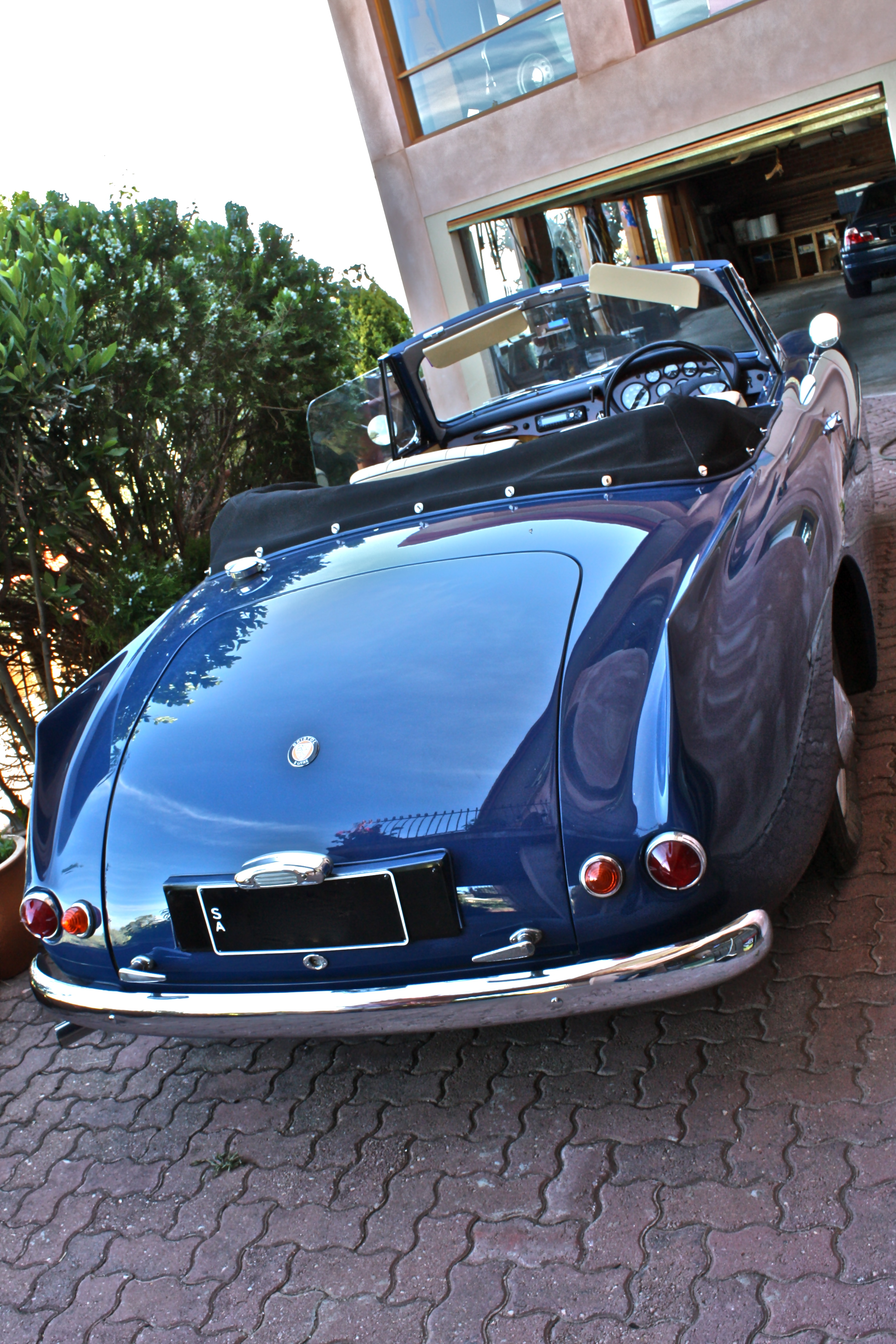 Bristol 405 Droptop now living in South Australia.